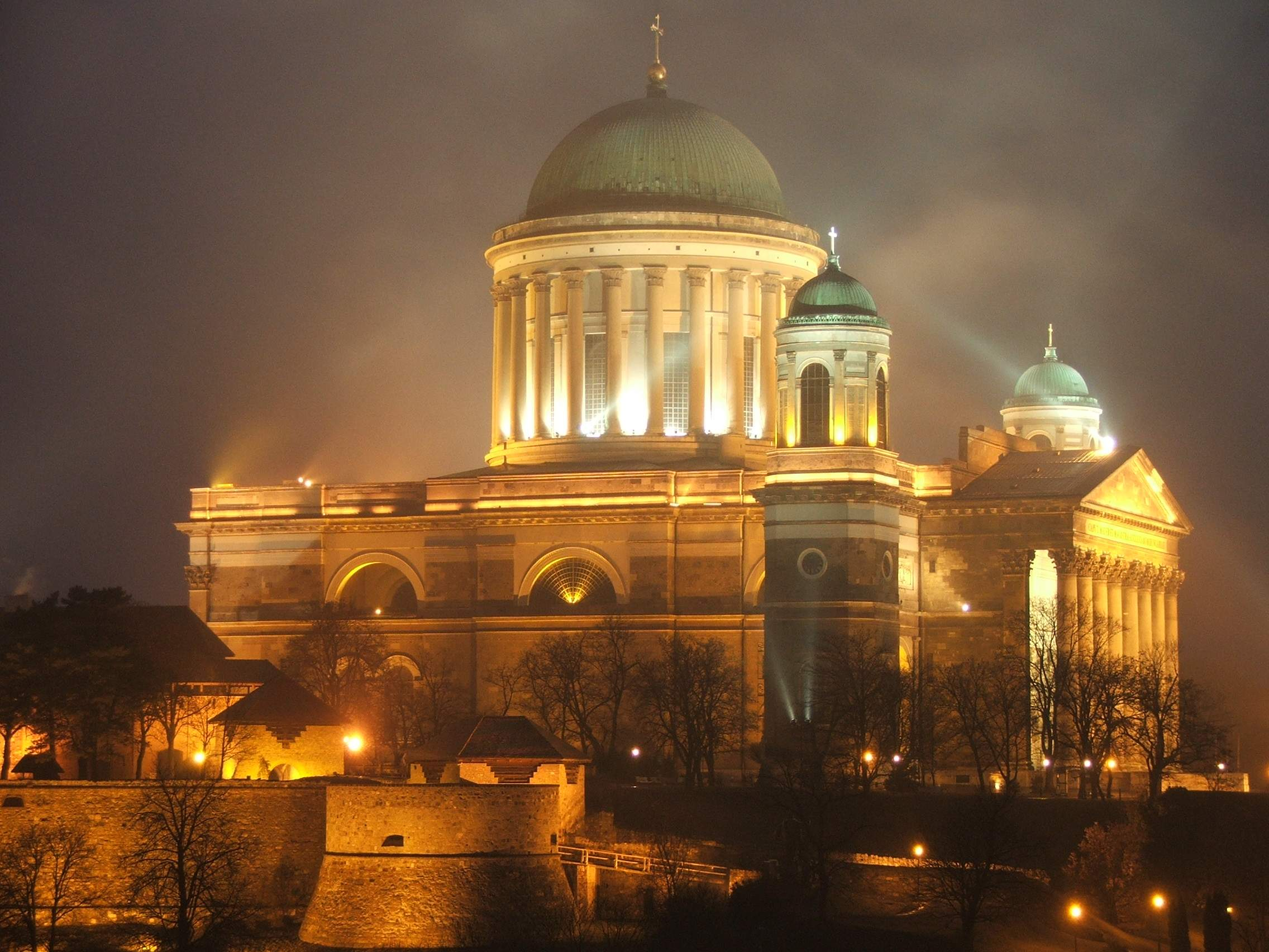 The Esztergom Cathedral at night